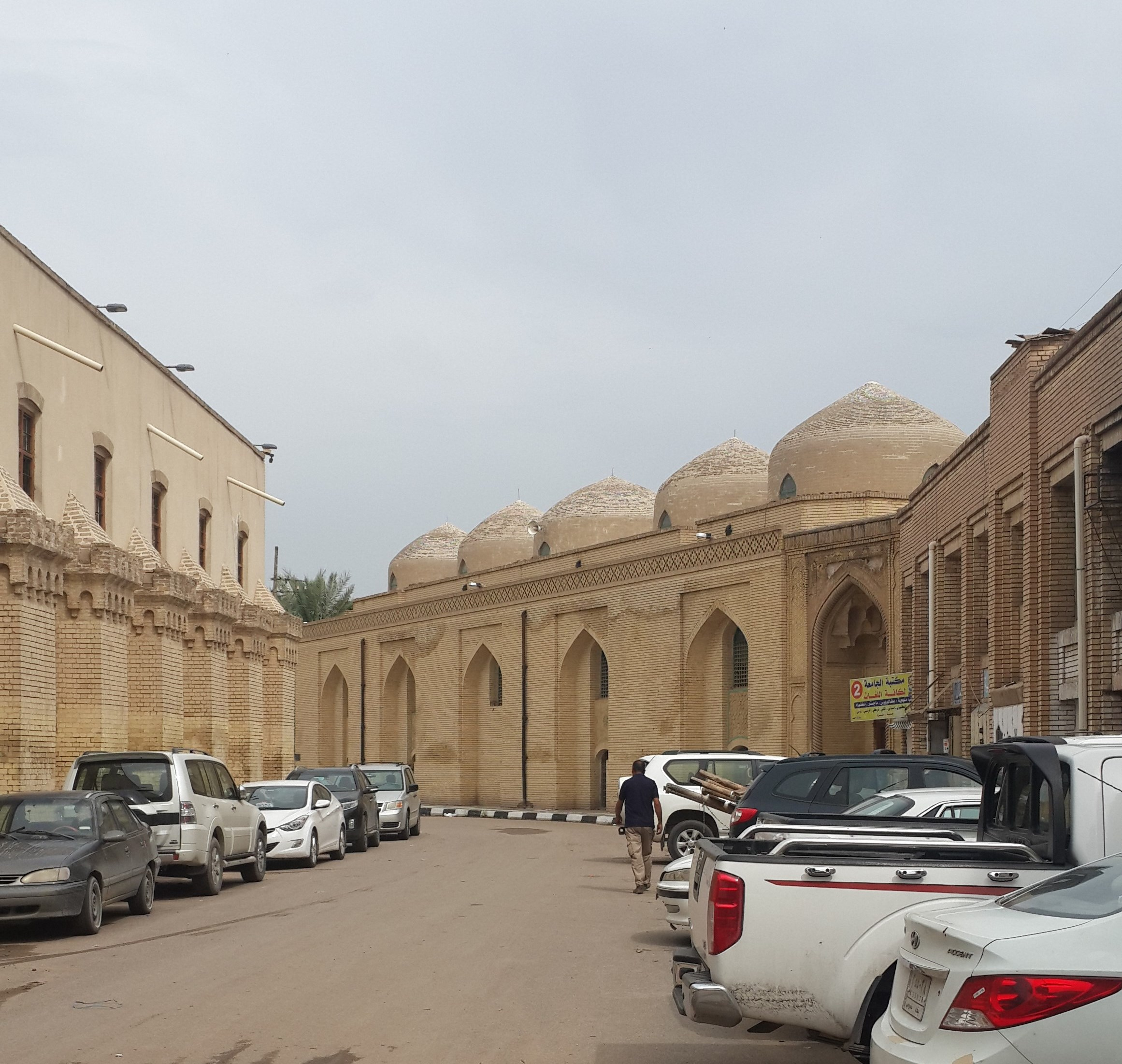 Al-Sarai mosque in Baghdad